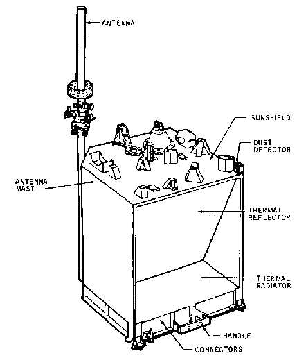 Diagram of a Central Station. Part of the ALSEP.